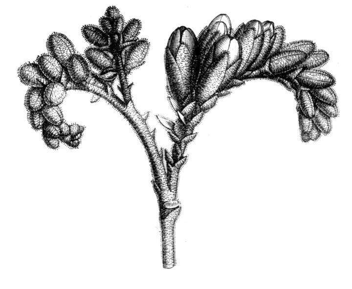 Illustration from book